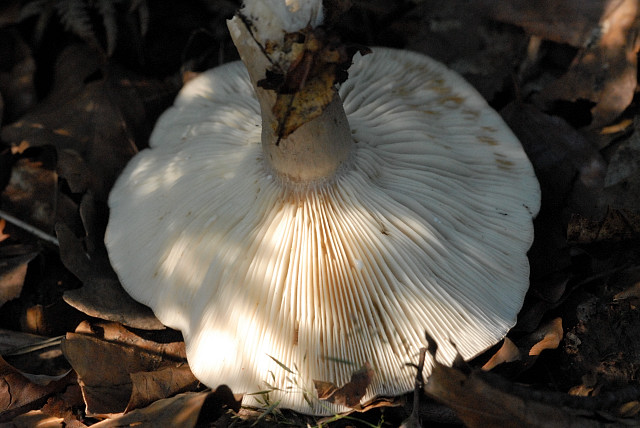 Lactarius vellereus The determination of the species shown in this picture has been verified.